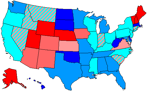 Summary of party control of U.S. house seats in the 99th United States Congress following election. Stripes indicate a tie between two or more parties. Legend: 80.1-100% Democratic seat majority 60.1-80% Democratic seat majority 60% or less Democratic seat plurality 60% or less Republican seat plurality 60.1-80% Republican seat majority 80.1-100% Republican seat majority